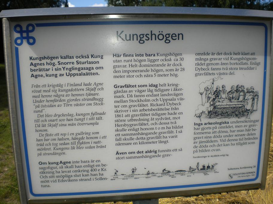 Sign by the city at a tumulus called the King’s Mound Kungshögen and King Agni’s Mound Kung Agnes hög near the local train stationPlace: Sollentuna, Sweden